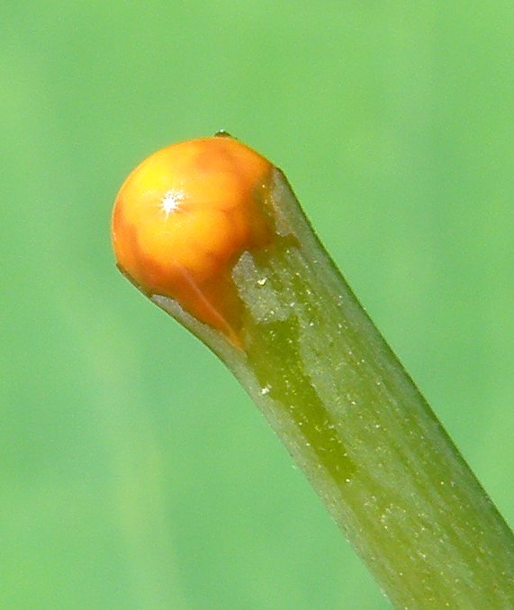 Chelidonium maius